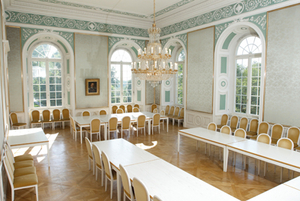 The green room inside Hohenheim Palace. It is sometimes used for events and seminars.